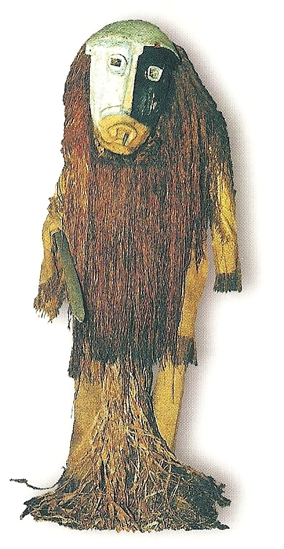 Bodi gabonese traditionnal mask from the Fang ethny